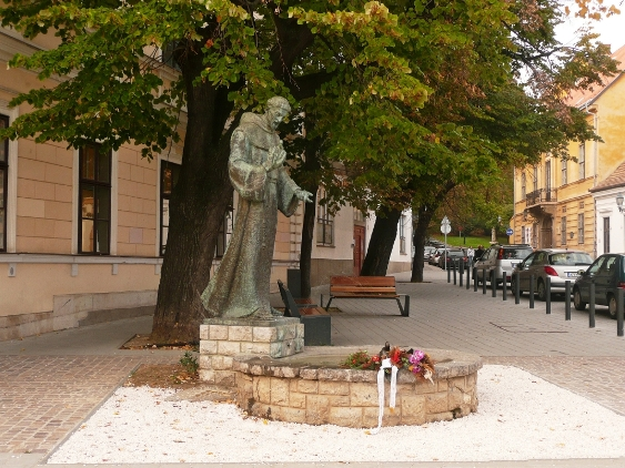 Fountain-sculpture of St. Francis by Bársony György, Pécs, 1942.